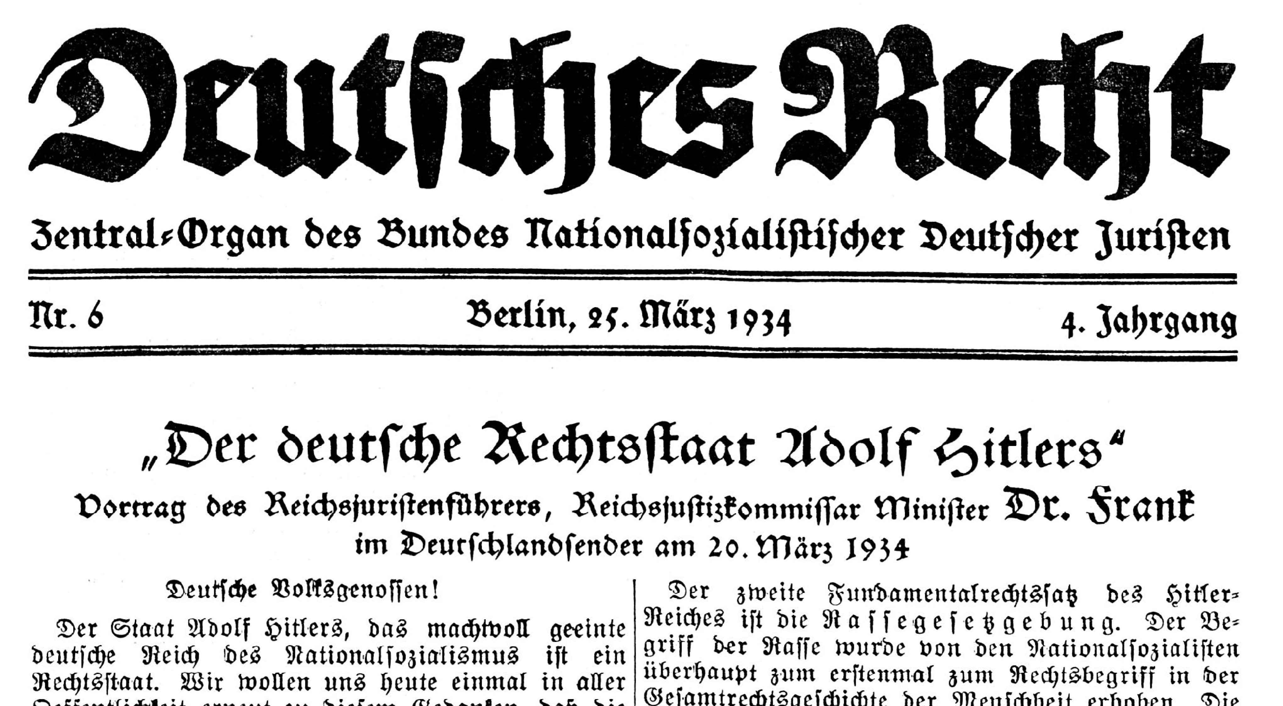 Header of the German journal "Deutsches Recht" (Iss. 6, 1934). Article by Hans Frank: "Adolf Hitler's German Rechtsstaat"